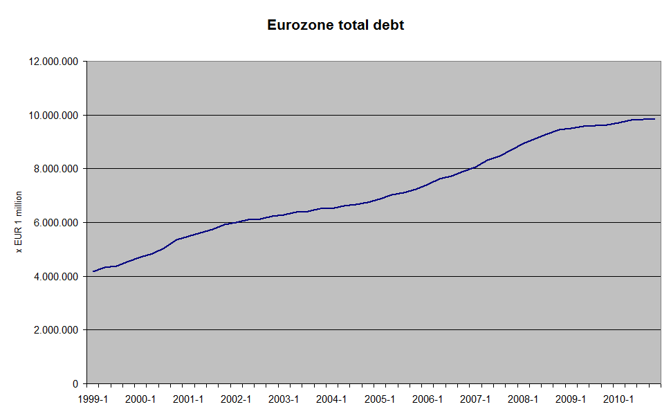 Total debt (public and private) in the Eurozone. Source: website ECB, query: IEAQ.Q.I5.N.V.LE.FP.S11.A1.S.2.X.E.Z. Used on Kredietcrisis.